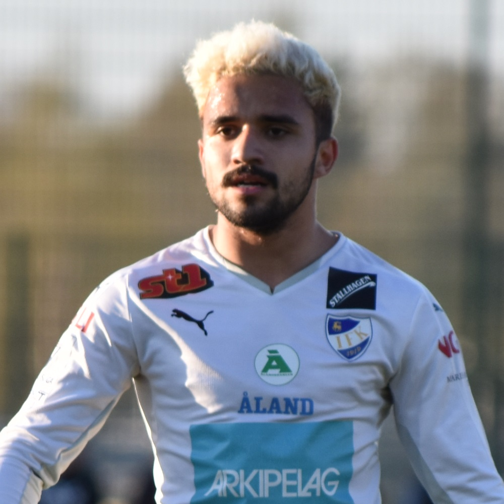 Association football player Julio Fernandes (IFK Marienhamn)